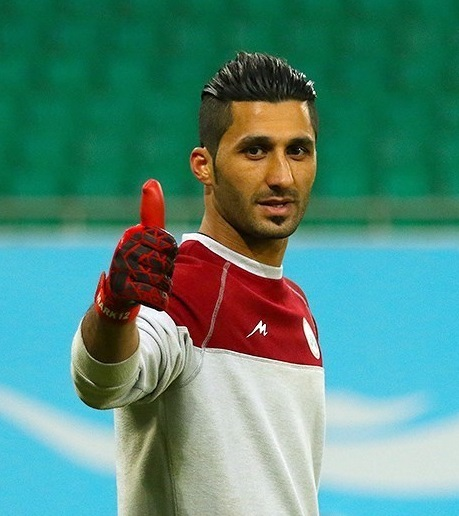 Mohammad Rashid Mazaheri